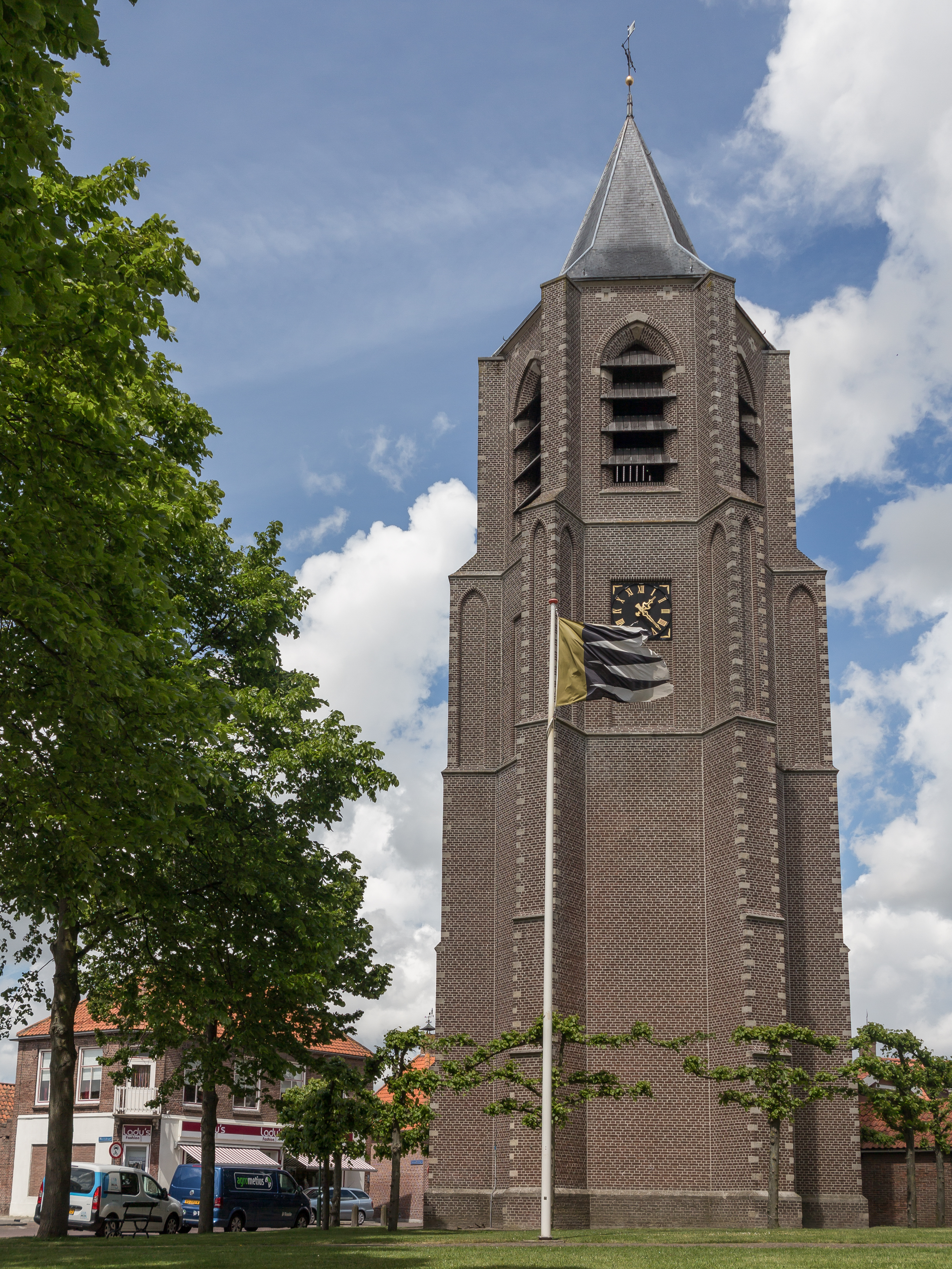 Nieuwerkerk, churchtower: de Johannes Evangelist vrijstaande kerktoren